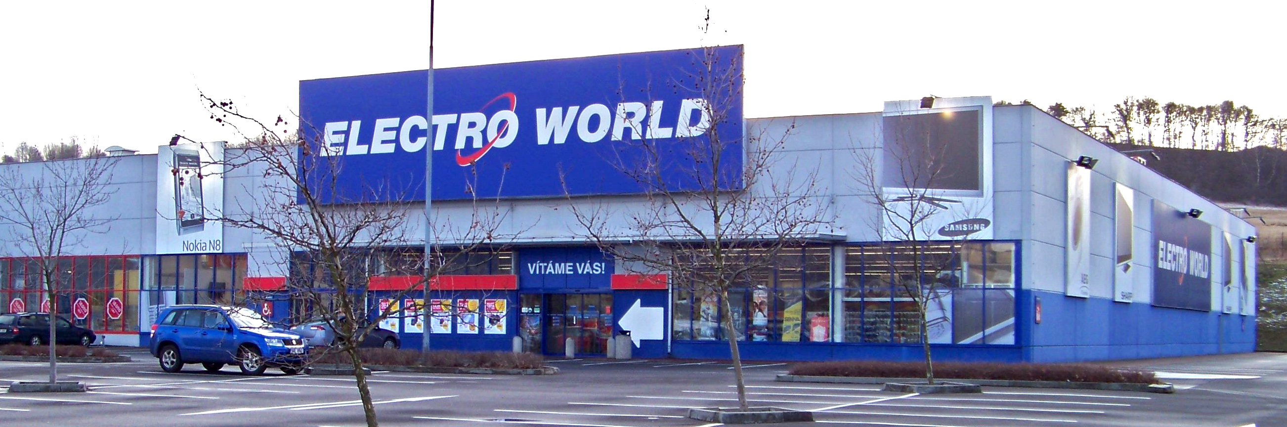 Ústí nad Labem-Všebořice, the Czech Republic. Havířská street, Electro World.